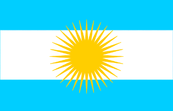 Flag of San Juan province, Argentina (reverse side)